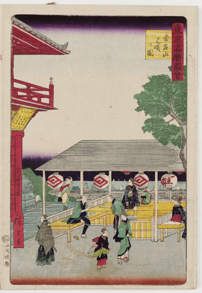 from the series Famous Places in Tokyo 3代歌川広重『東京名所図会』愛宕山見晴しの図